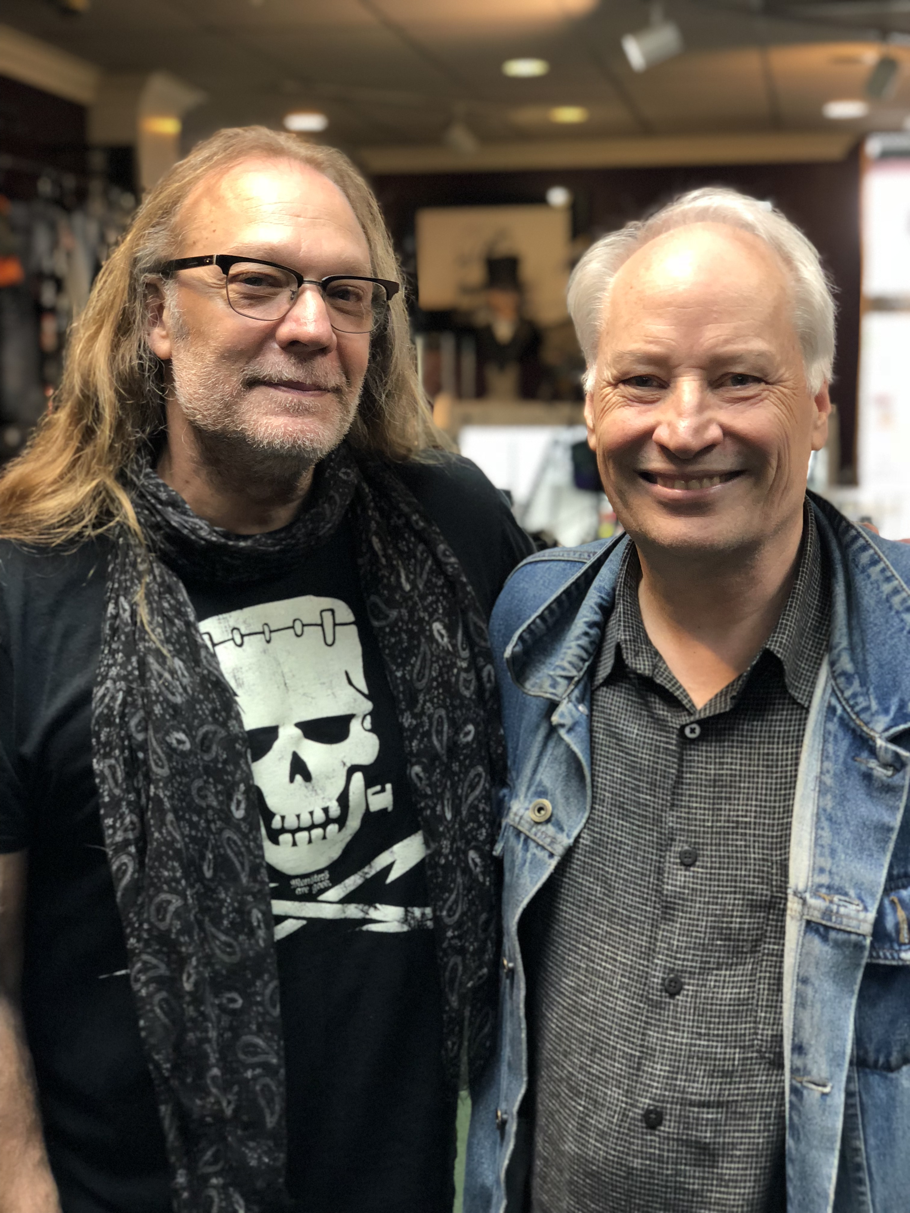 A photo I took of The Walking Dead creator Greg Nicotero and Hap and Leonard creator Joe R. Lansdale.